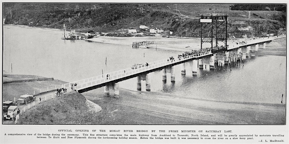 OFFICIAL OPENING OF THE MOKAU RIVER BRIDGE BY THE PRIME MINISTER ON SATURDAY LAST. 22 December 1927